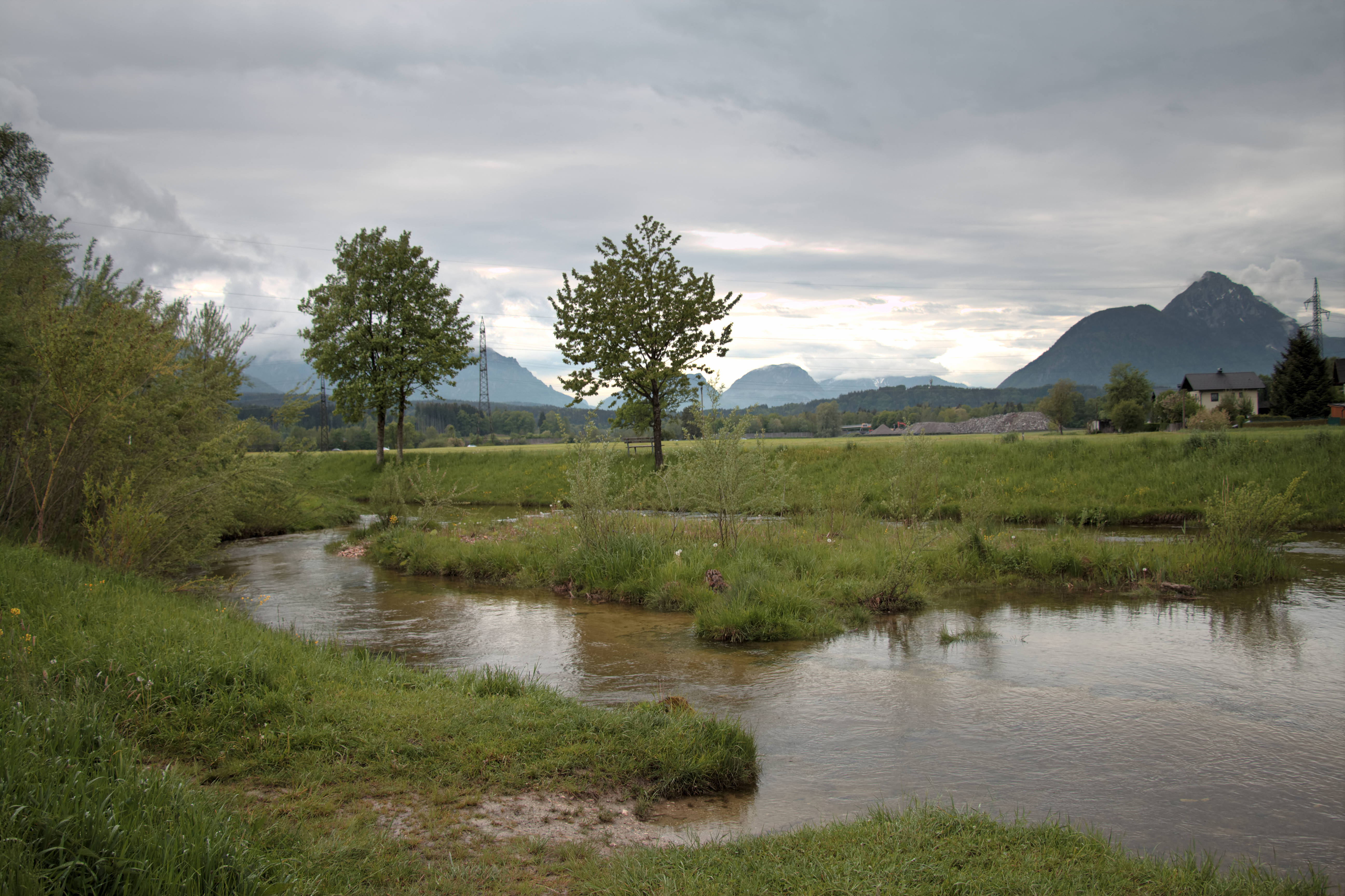 Scene of Leopoldskroner Moos, a protected landscape area in the southwest of the Austrian city of Salzburg. The area is situated in the city quarter by the same name (also spelt Leopoldskron-Moos).